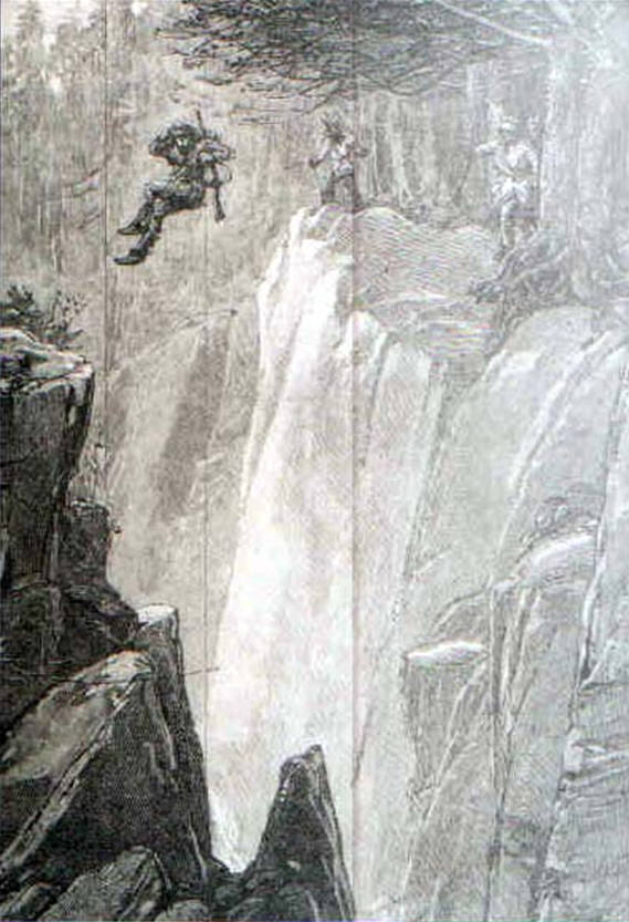 Drawing of Samuel Brady leaping over the Cuyahoga River in present-day Kent around 1780.